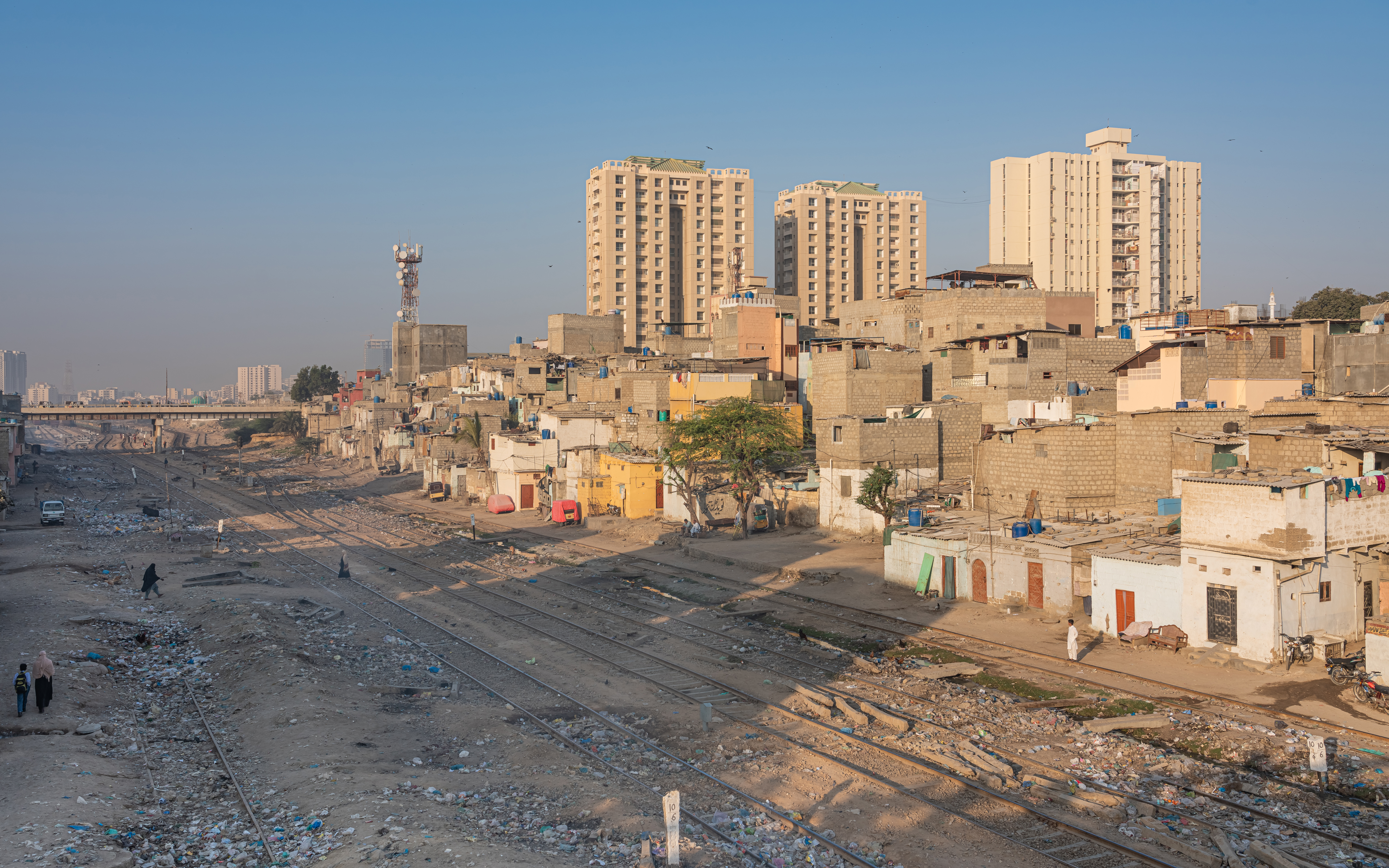 Railway tracks near Cantonment station in Karachi, Pakistan